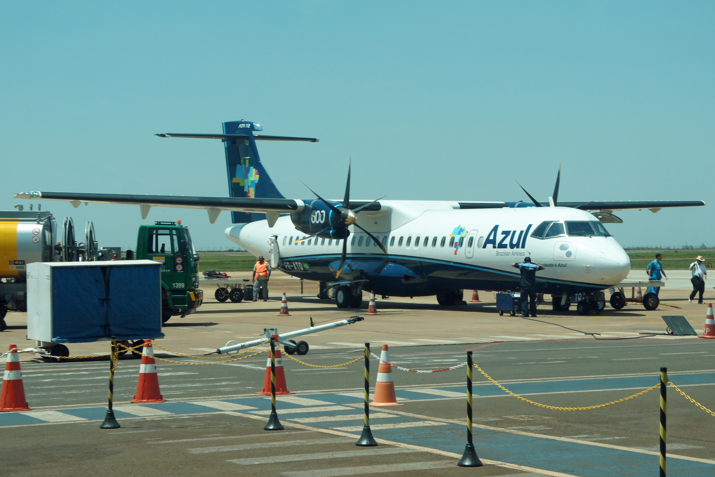 ATR72-600 from Azul Linhas Aéreas Brasileiras at Maringá Regional Airport, Maringá, Paraná, Brazil